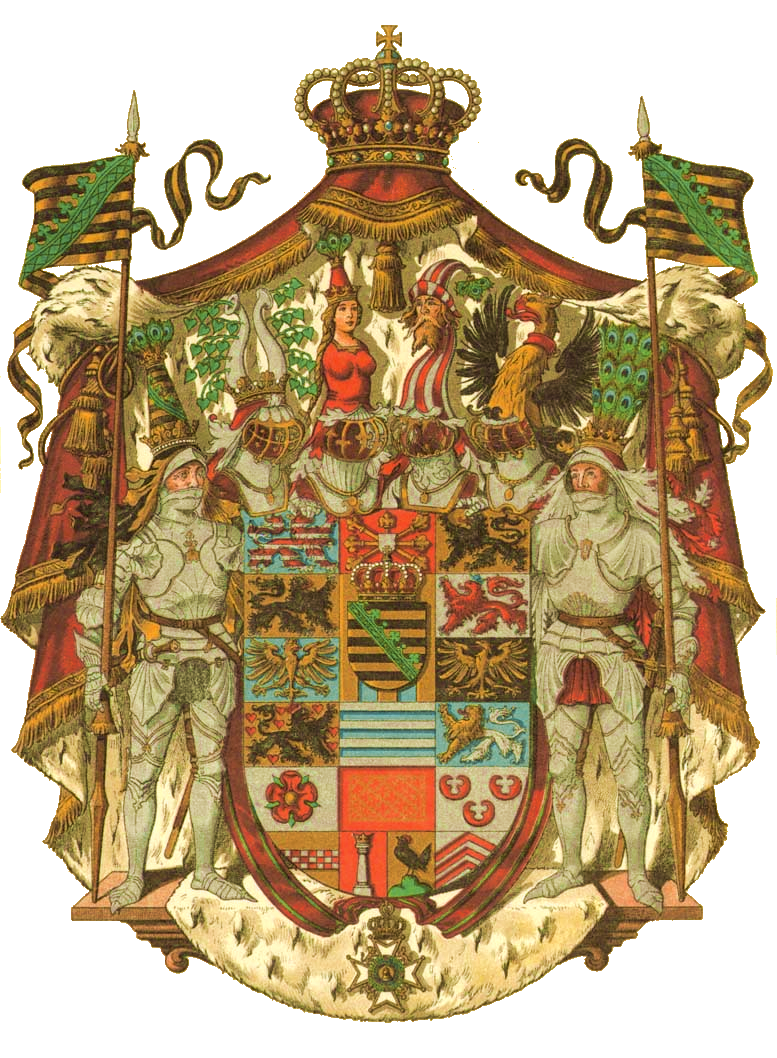 Greater Coat of Arms of the Duchy of Saxe-Meiningen. Art by Hugo Gerhard Ströhl, late 19th century or early 20th century.